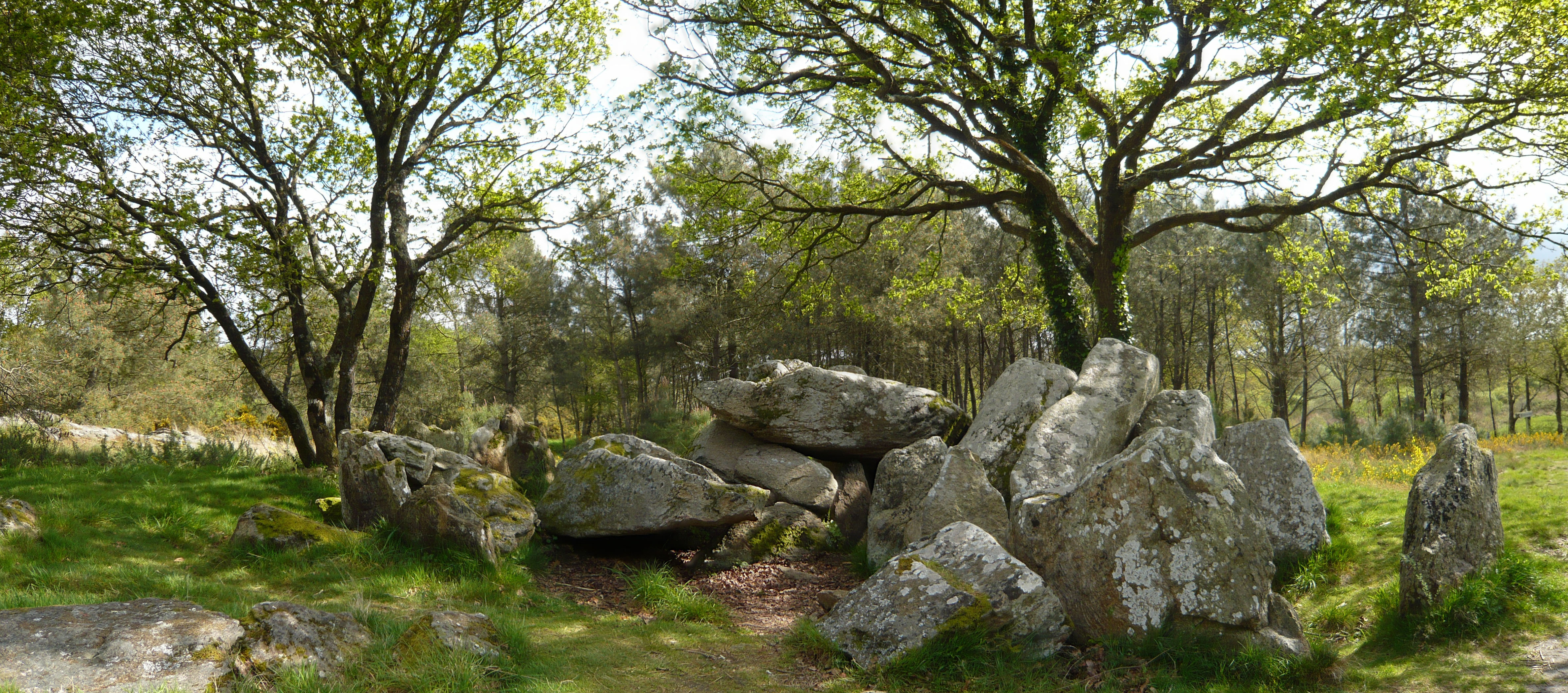 Dolmen du Riholo, Herbignac, Loire-Atlantique, France.